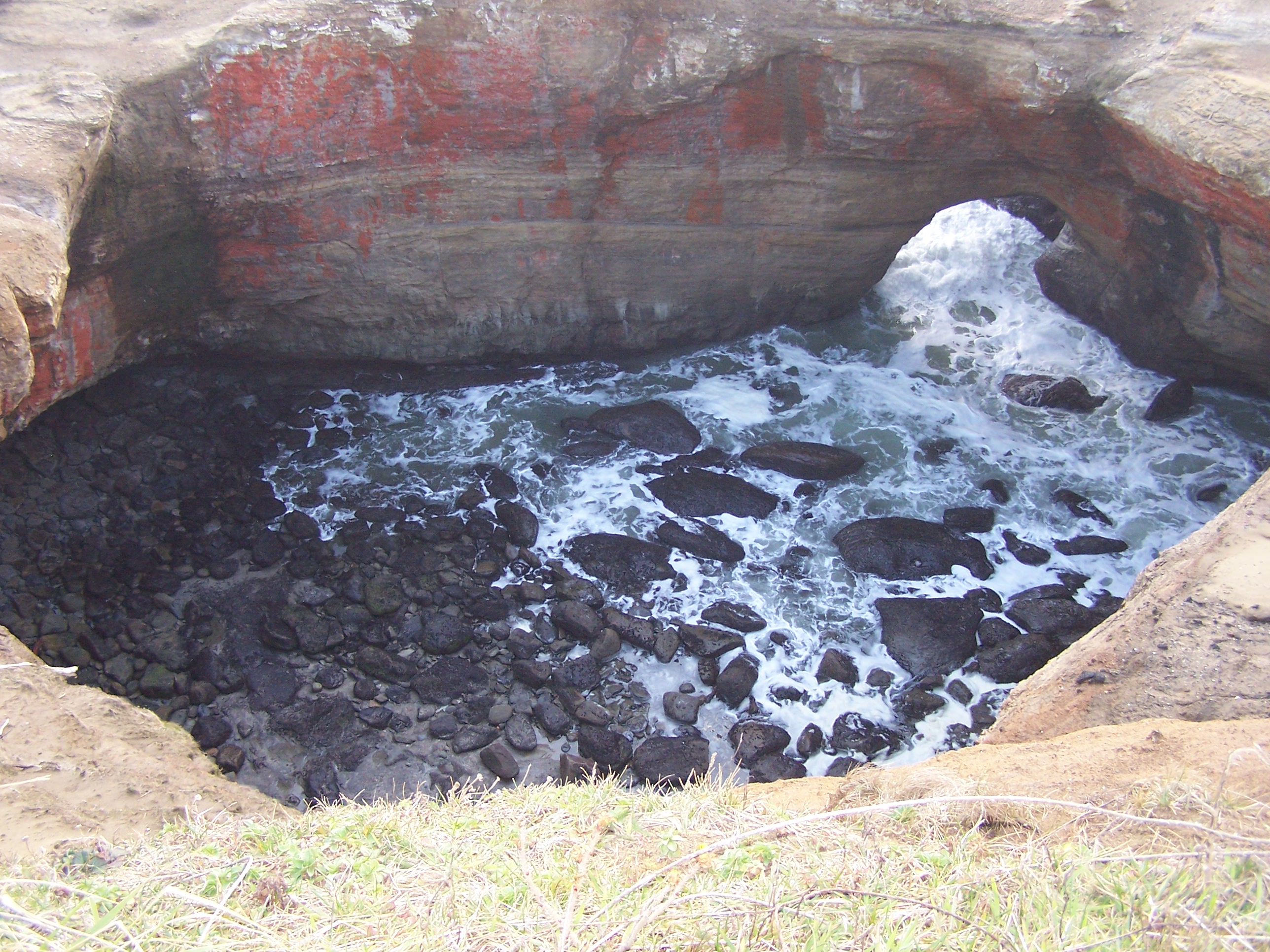 Looking into the Devils Punch Bowl in Otter Rock, Oregon.